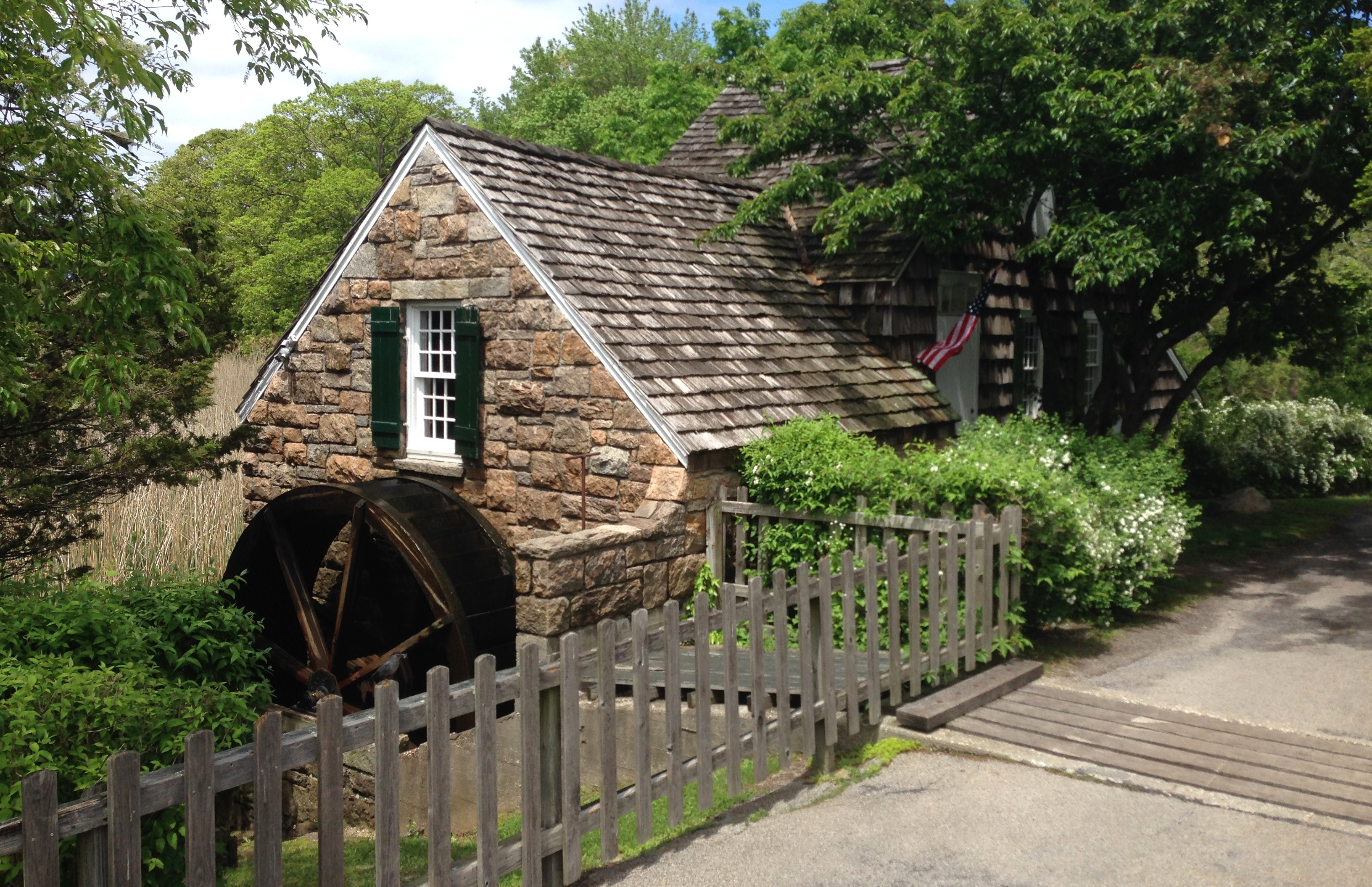 Mill in Setauket, New York, at the Setauket Millpond and within the Frank Melville Park. The Mill is a replica based on earlier structures and dates to 1937.